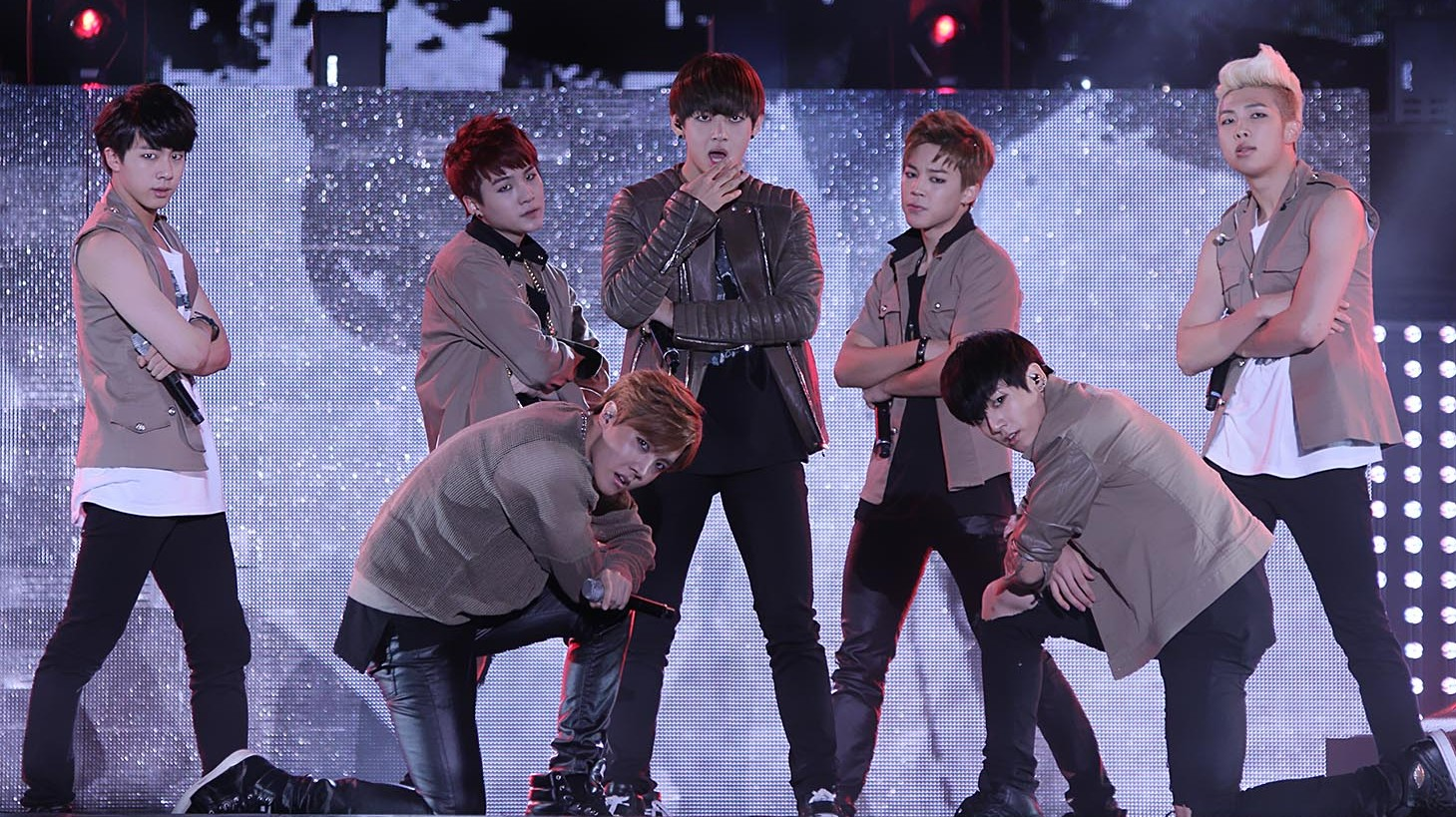 BTS at Incheon Hallyu Concert, 17 September 2014